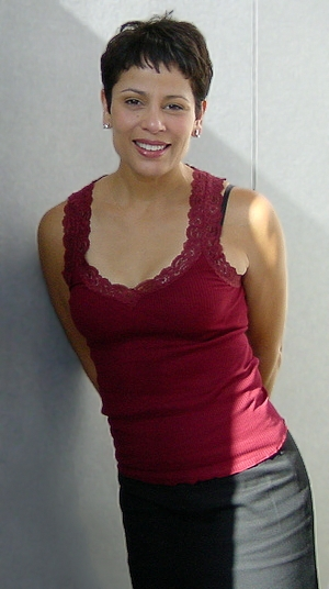 American actress Roxann Dawson.